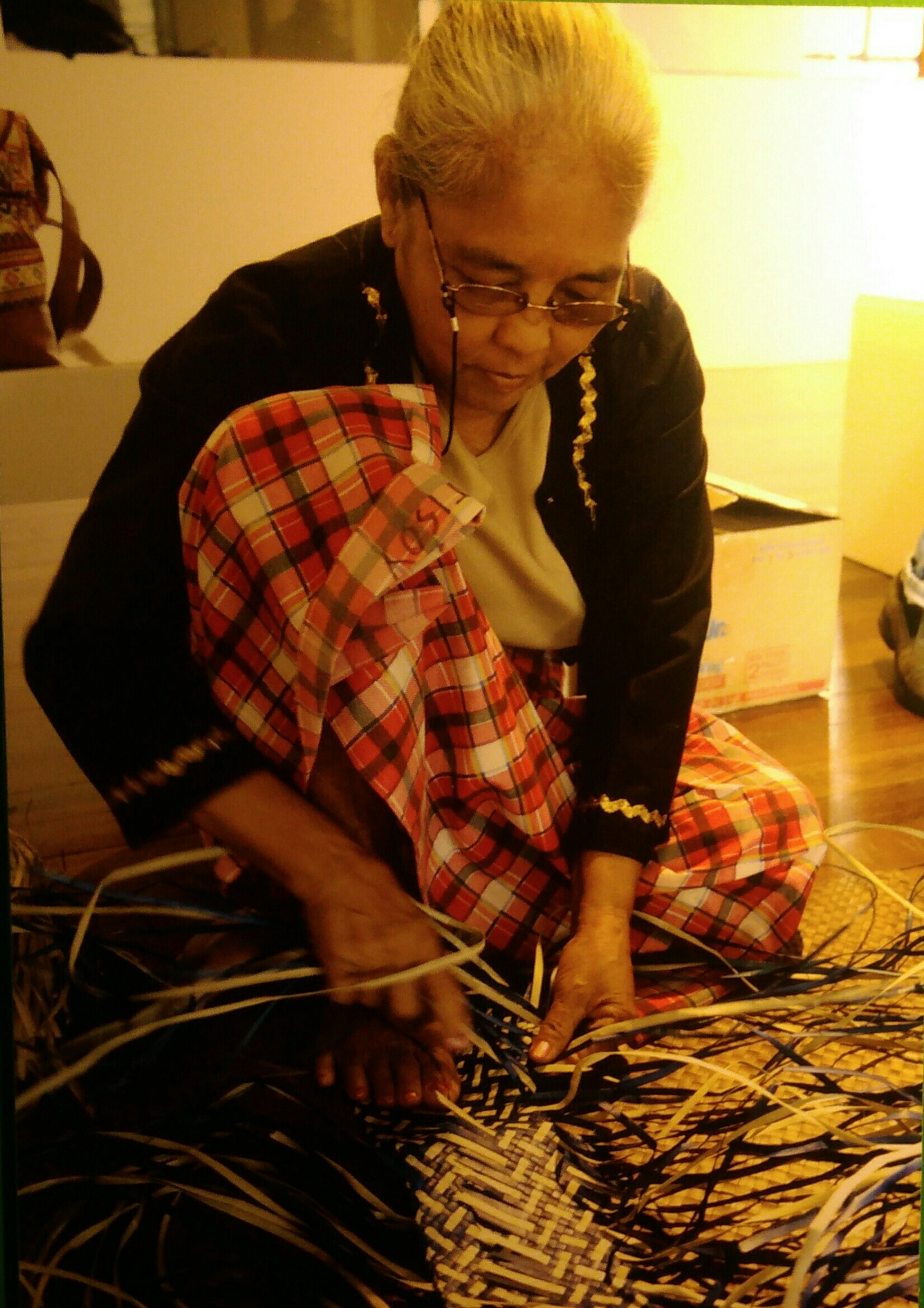 Tagbanua weaver Celita Salunday, weaving a pandan mat. Tagalog: Manghahabing Tagbanua na si Celita Salunday, naghahabi ng pandan na banig.